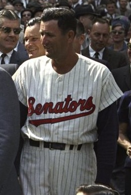 President John F. Kennedy (laughing) visits with President of the American League of Professional Baseball Clubs, Joseph Cronin (center), and others during opening day of the 1963 baseball season at D.C. Stadium, Washington, D.C.; the Washington Senators hosted the Baltimore Orioles. Also pictured: Governor of California, Edmund G. “Pat” Brown; Senator Hubert H. Humphrey (Minnesota); Owner of the Washington Senators, James M. Johnston; Representative Torbert H. Macdonald (Massachusetts); Manager of the Baltimore Orioles, Billy Hitchcock; Manager of the Washington Senators, James Barton "Mickey" Vernon; Daniel Harnett and Levi Fraser, from the Washington Boys Clubs; White House Secret Service agents, Gerald A. “Jerry” Behn, Roy Kellerman, and John J. “Muggsy” O’Leary.